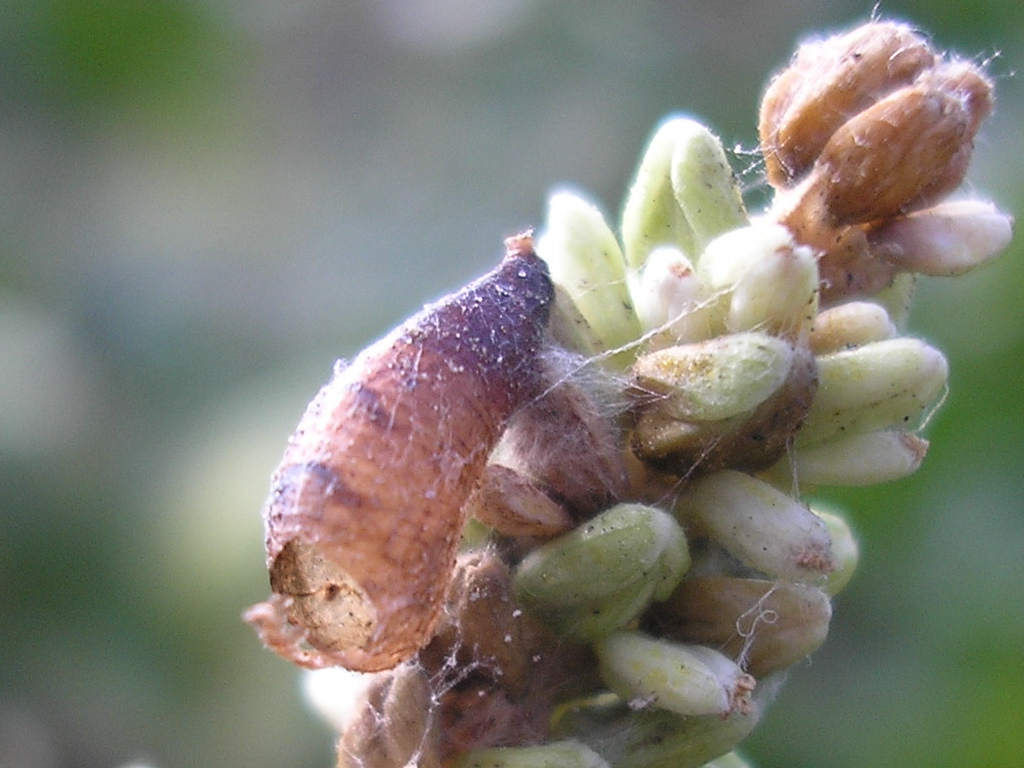 Empty pupa of a hoverfly (Syrphidae). This very specimen was made by a larva invested with a ichneumon wasp (Ichneumonidae) of genus Diplazon, that later came out of the pupa instead of the hoverfly so the exit whole is made by the wasp, not by a hoverfly. Location: Hengelo (Overijssel), Netherlands Keywords: Pupa, Pupae, Syrphidae, Flowerfly, Flower-fly, Ichneumonidae, parasite